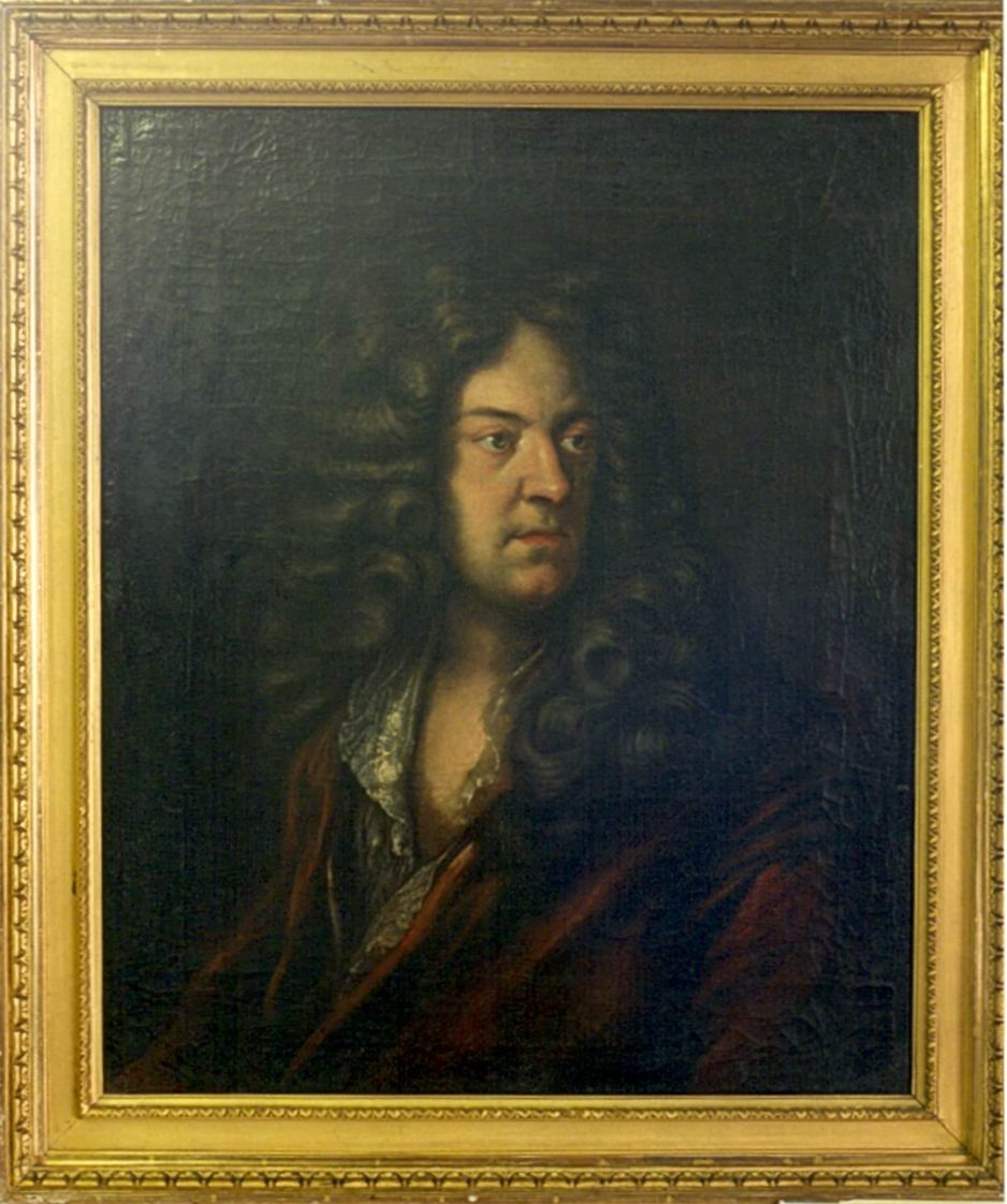 GesamtansichtPorträt des Fürsten Viktor Amadeus von Anhlat-Bernburg (1634-1718) als Brustbild im mittleren Alter. Er trägt eine Perücke und einen leichten Mantel.